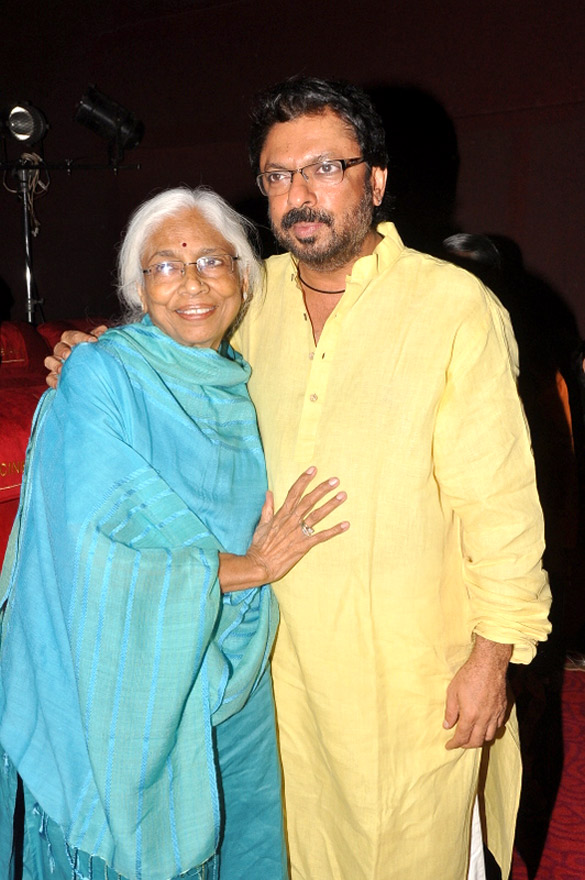 Director Sanjay Leela Bhansali with his mother Leela Bhansali at the first-look release function of the 2012 film Shirin Farhad Ki Toh Nikal Padi. Sanjay was the film's co-producer.